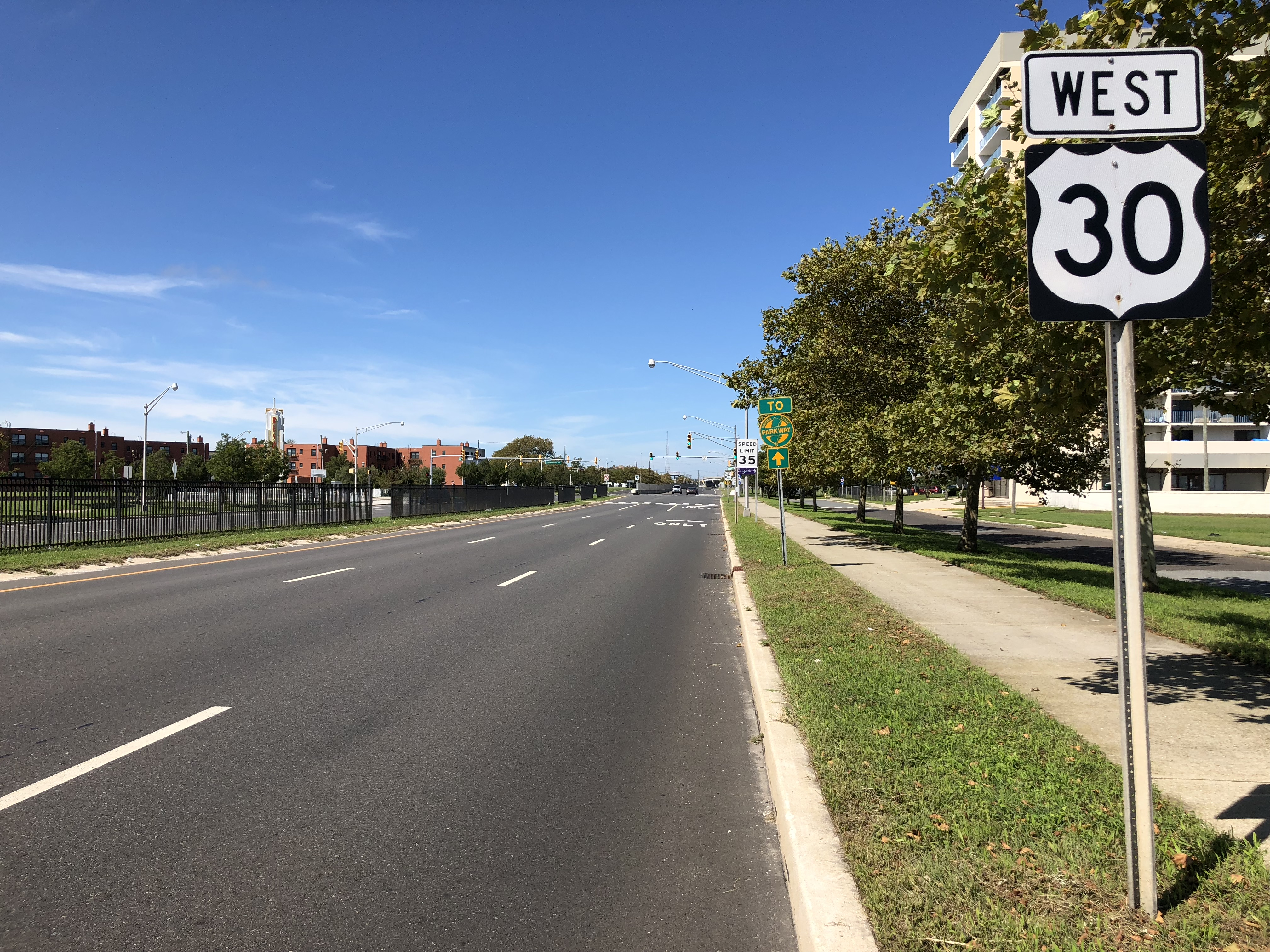 View west along U.S. Route 30 (Absecon Boulevard/White Horse Pike) at Pennsylvania Avenue in Atlantic City, Atlantic County, New Jersey